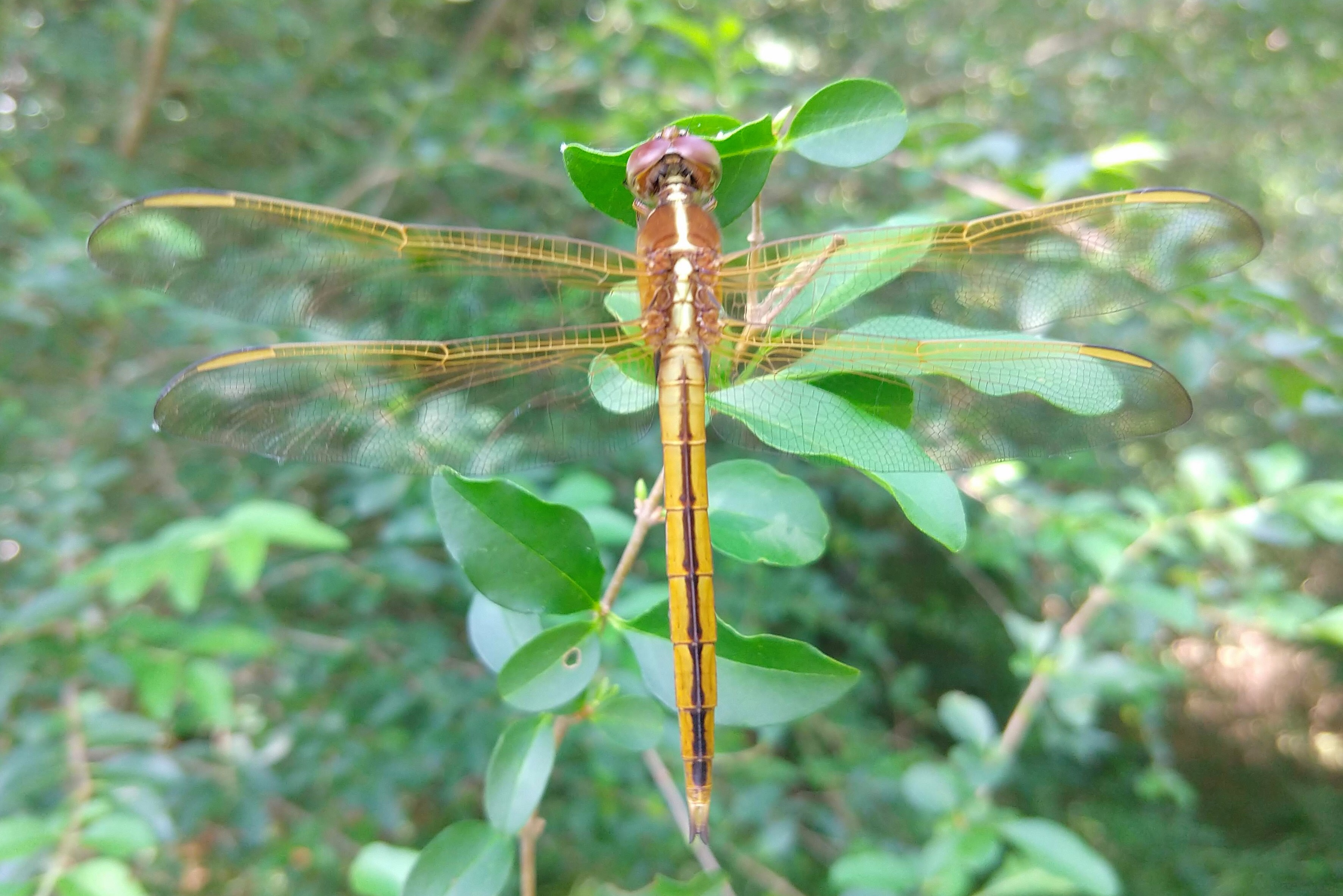 Yellow-sided Skimmer (Libellula flavida) on California privet, with good detail of pterostigmata.